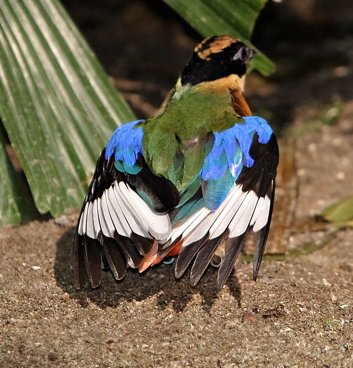 A Blue-winged Pitta spreading its wings to get some late-morning sun - illustrates the coloration of the back of the bird and its wings.